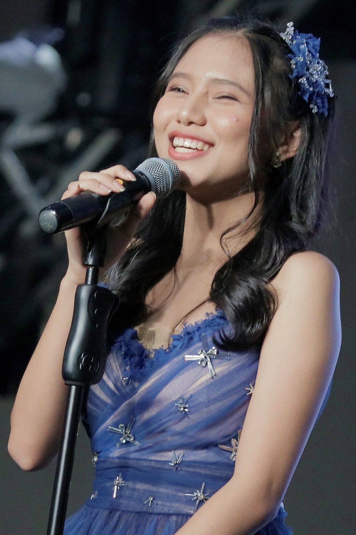 Jennifer Rachel Natasya (Rachel) giving her graduation speech at JKT48 Joy Kick Tears Handshake Festival Surabaya.